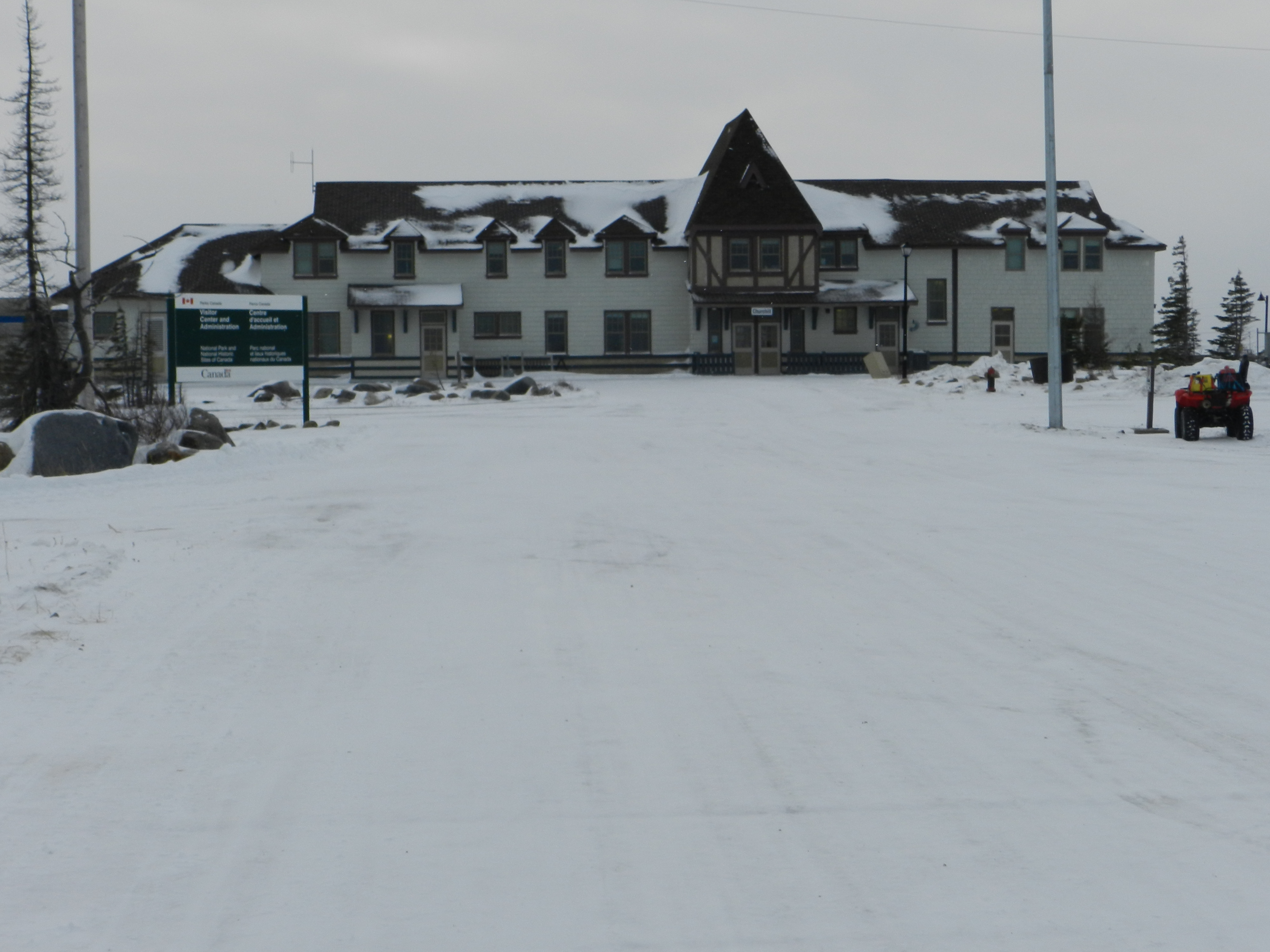 Train station